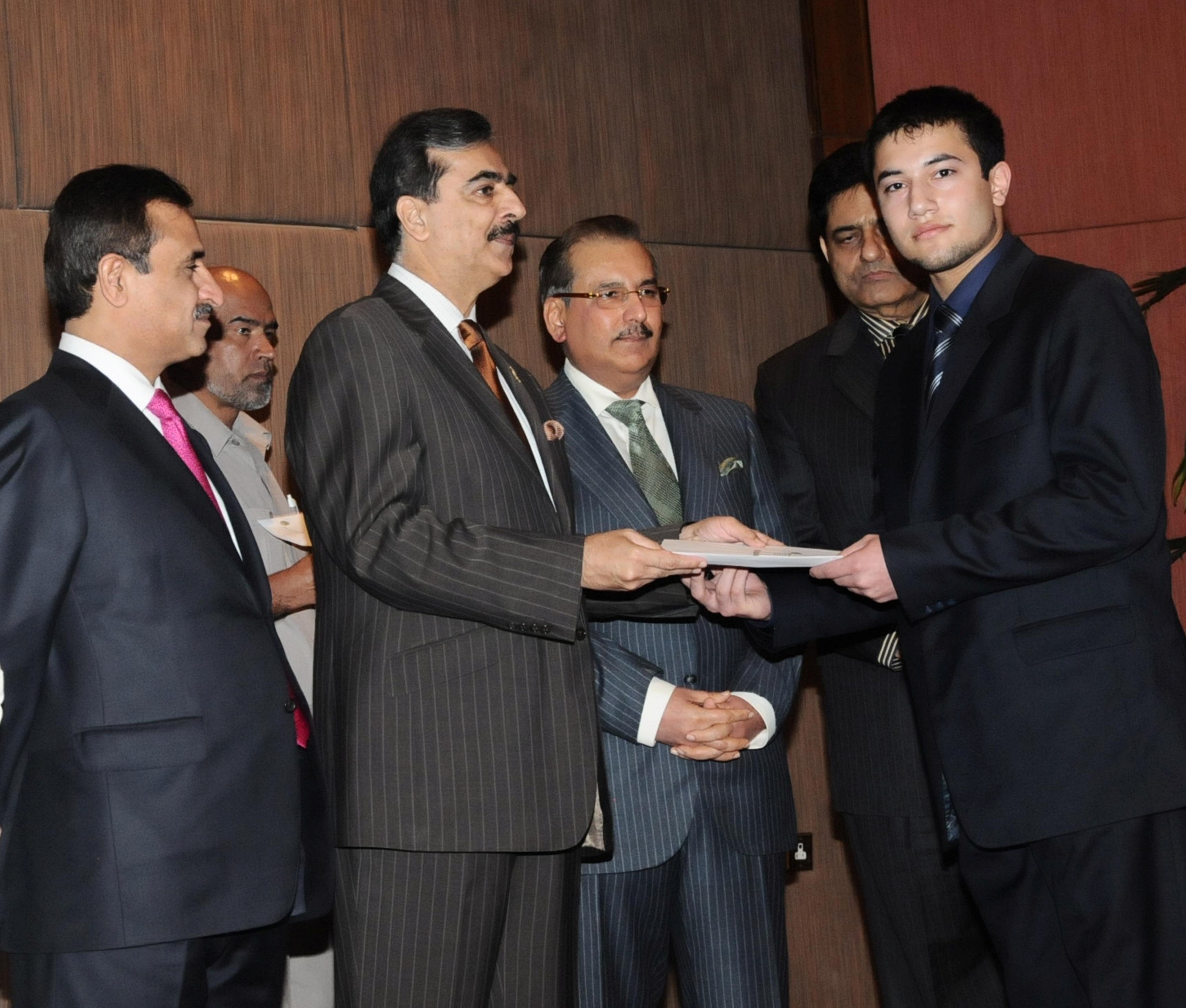 Mohammad Abubakar Durrani Youth adventurer and canoeist of Chiltan Adventurers & HDWSA receiving Award from Mr. Yousaf Raza Gillani Prime Minister Pakistan at Prime Minister Secretariate Islamabad on account of outstanding performance in the field of Adventure and canoeing sports in the country, (2nd November 2010))Federal Minister of Sports Mir Ijaz Hussain Jakhrani is also standing with.